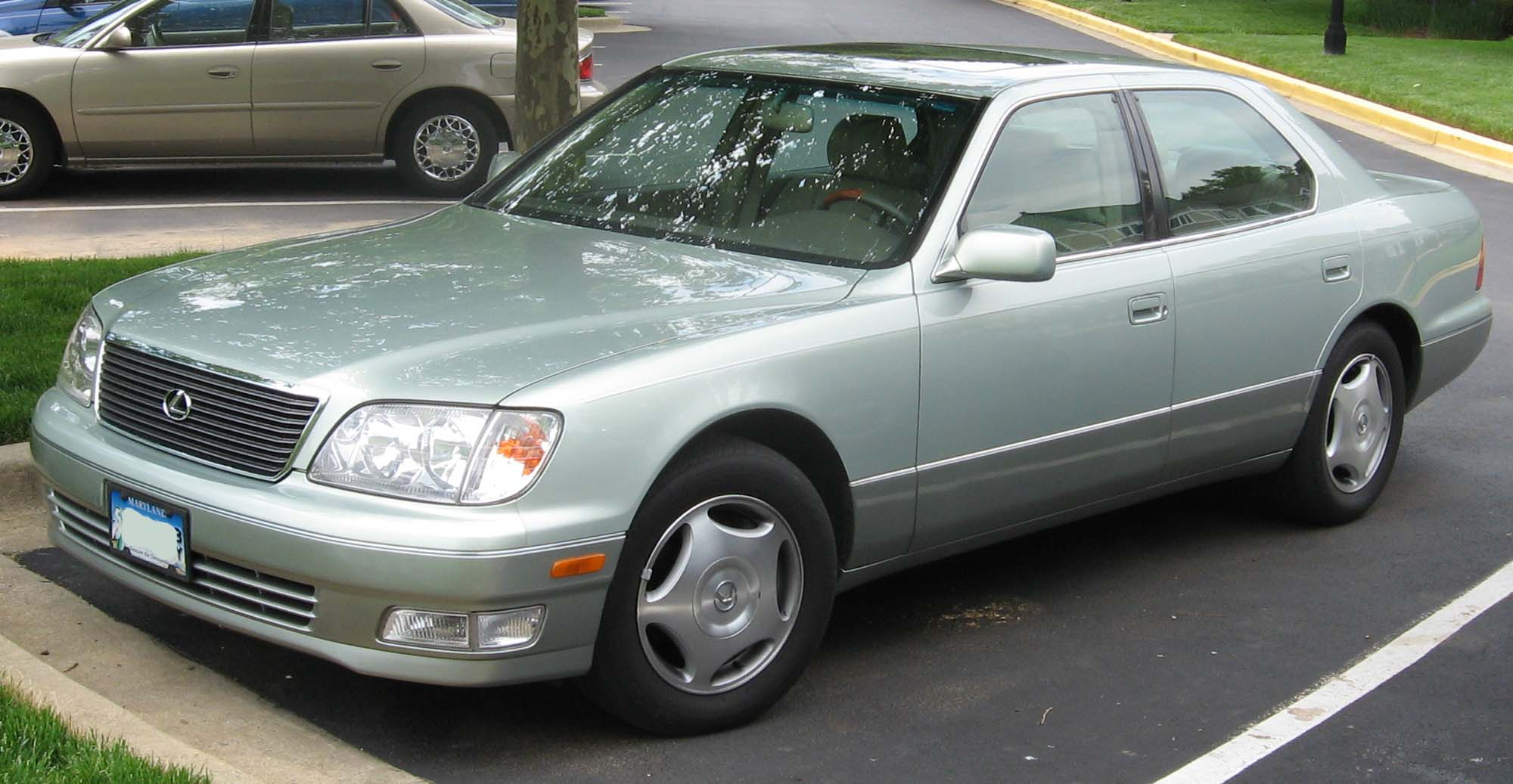 1998-2000 Lexus LS400 photographed in USA.